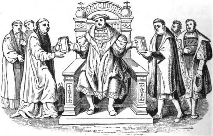 Confutatio Augustana and Confessio Augustana presented to Charles the V in 1530, Catholic and Lutheran sides presenting documents at the Diet of Augsburg.